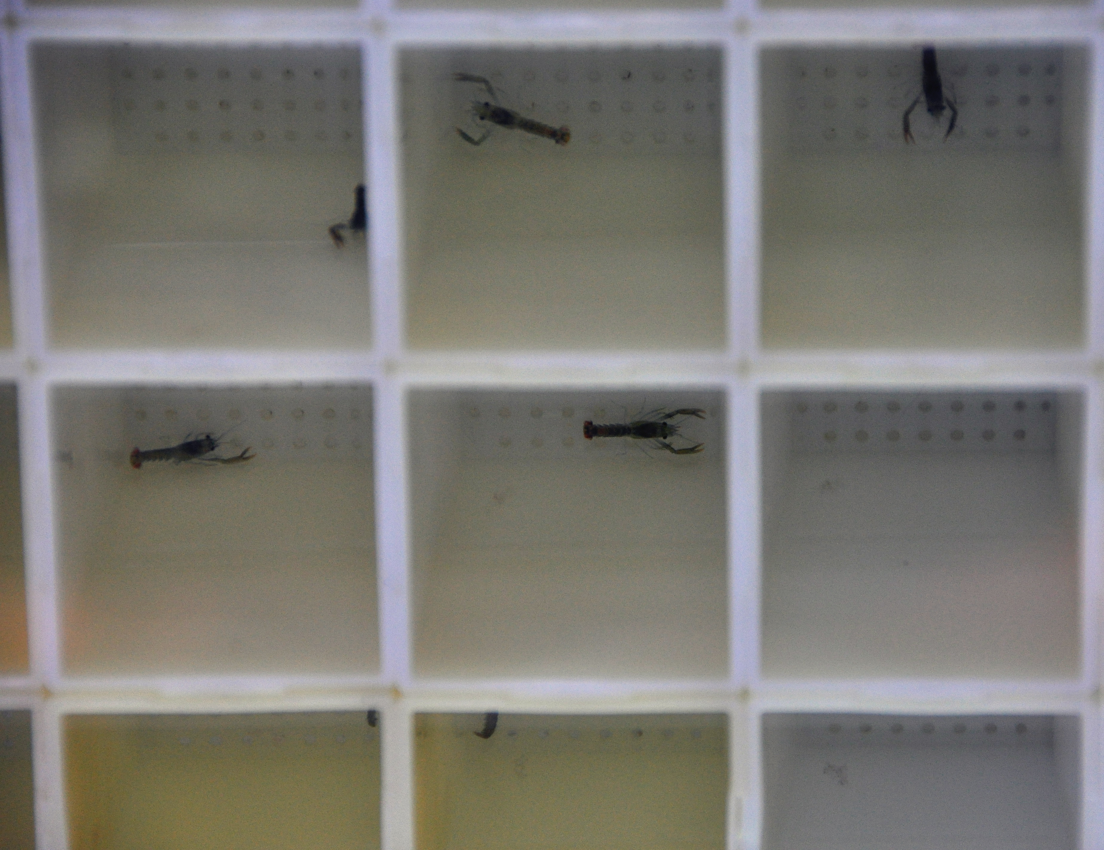 Juvenile lobsters at the National Lobster Hatchery in Padstow, Cornwall.